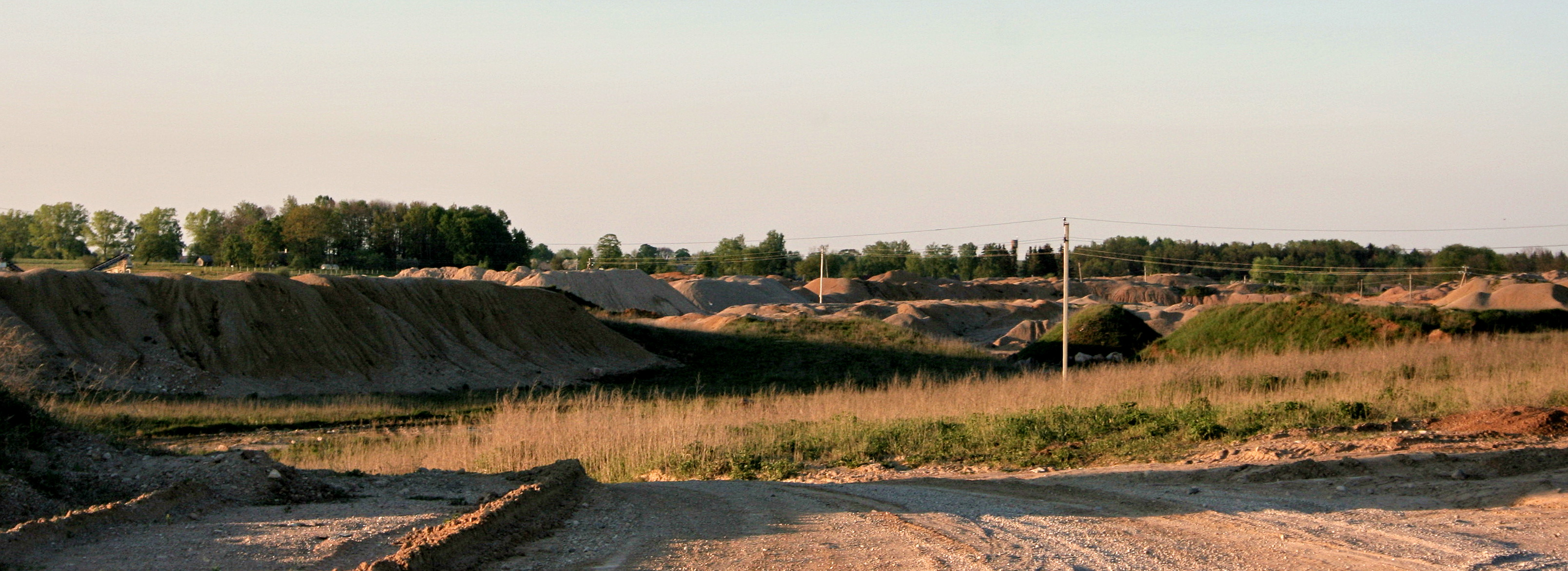 Rizgonys gravel quarry